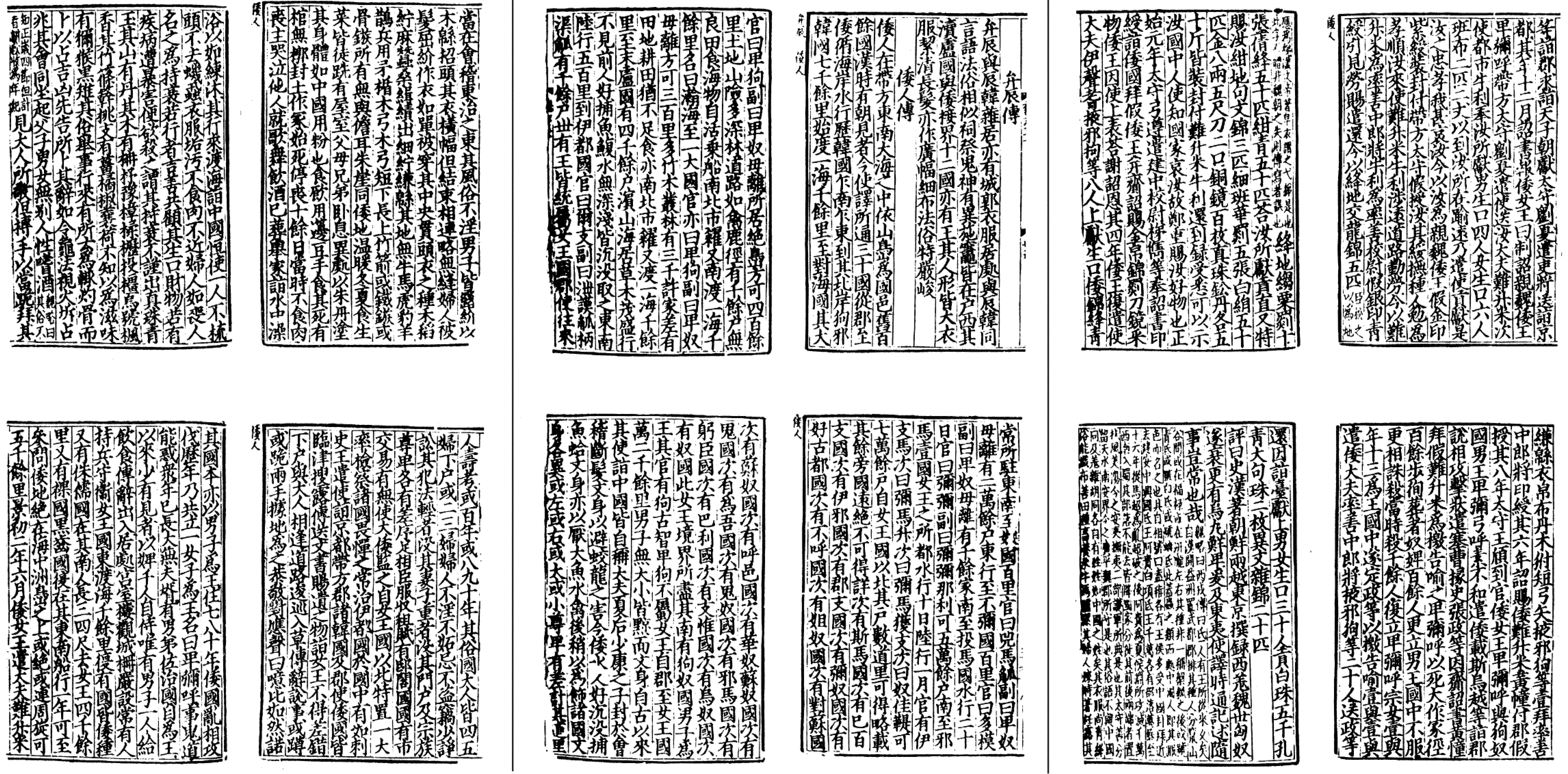 Text of the Wei Zhi (魏志, Records of Wei), which documents the history of the Wei kingdom (220-265).